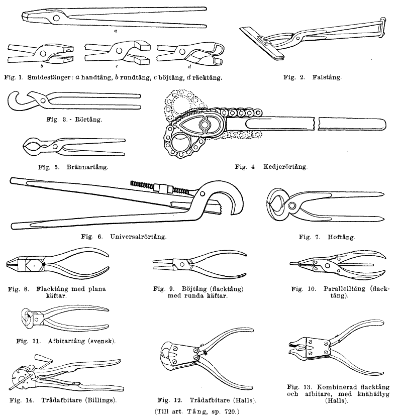 Pliers